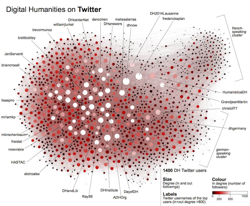 Graph of Digital Humanities Twitter users with 1,434 nodes and 137,061 directed edges that each symbolize a user following another user